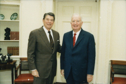 President Ronald Reagan and Malcolm Wilkey (0A-4) Farewell photo opportunity with departing United States Ambassador to Uruguay Malcolm Wilkey President Ronald Reagan (5-10) Photo opportunity with Ron Jackson